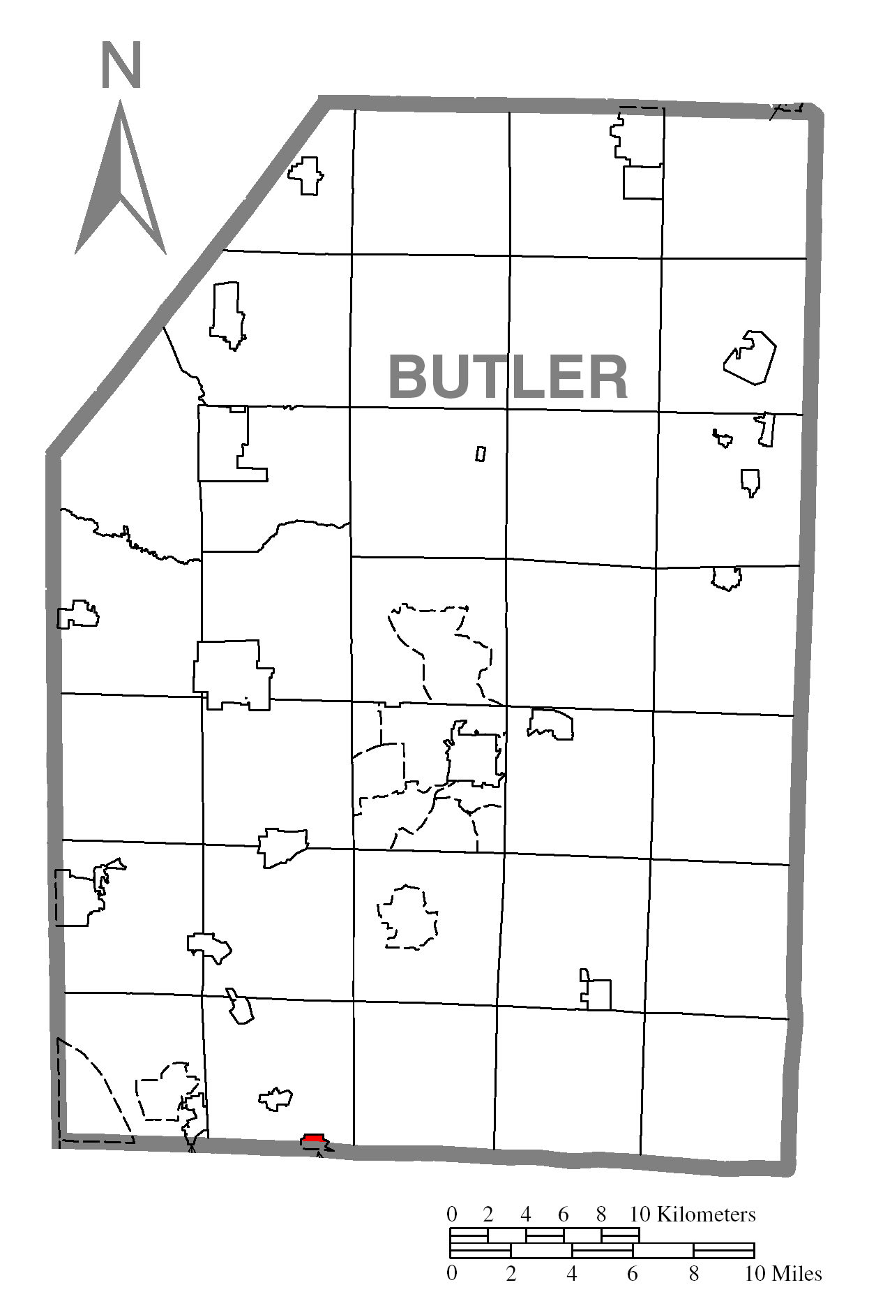 A map of Butler County showing Valencia, Pennsylvania (alternate) highlighted on the map.